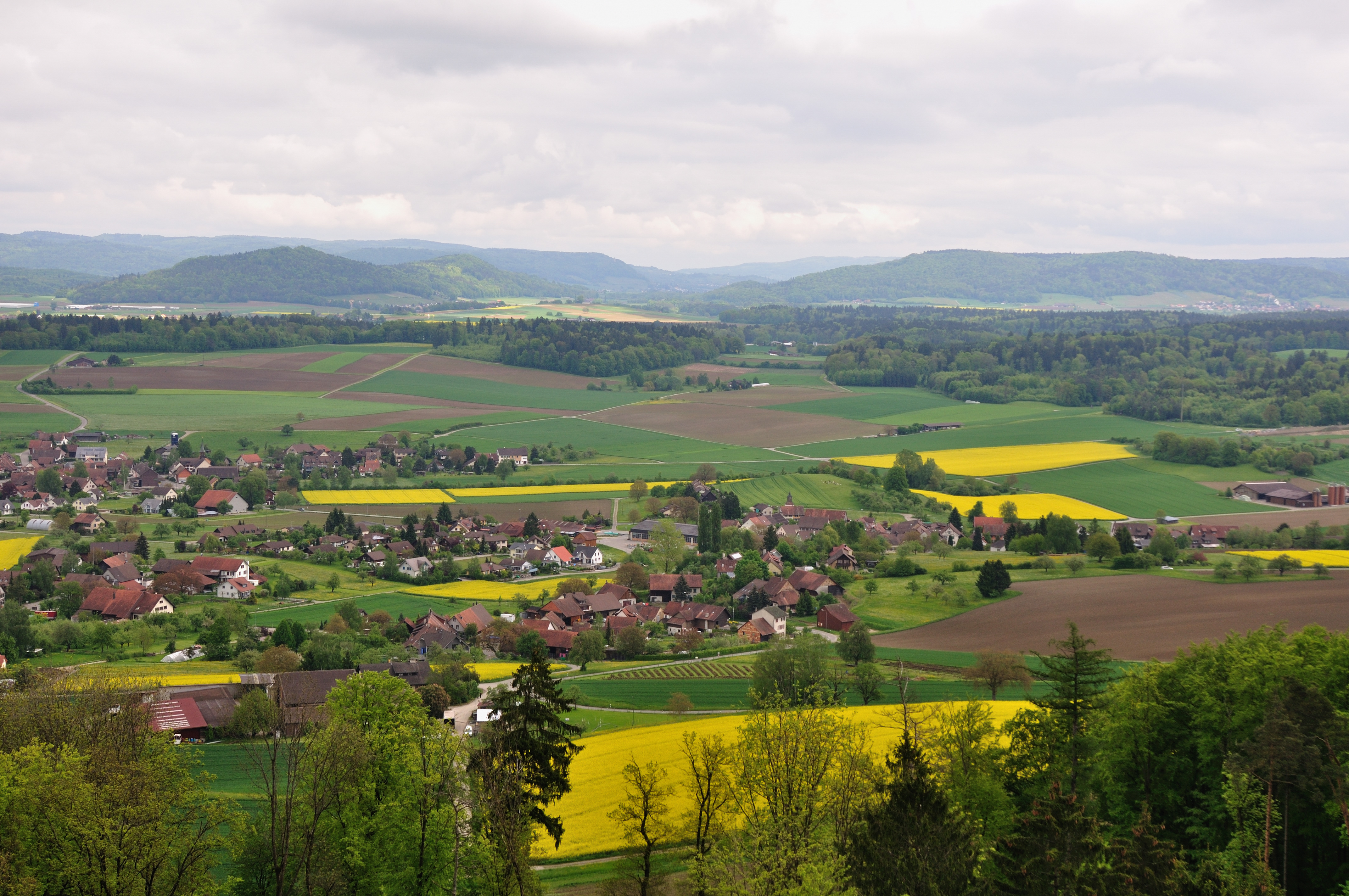 Switzerland, Canton of Zürich, view from the lookout tower in Wildensbuch